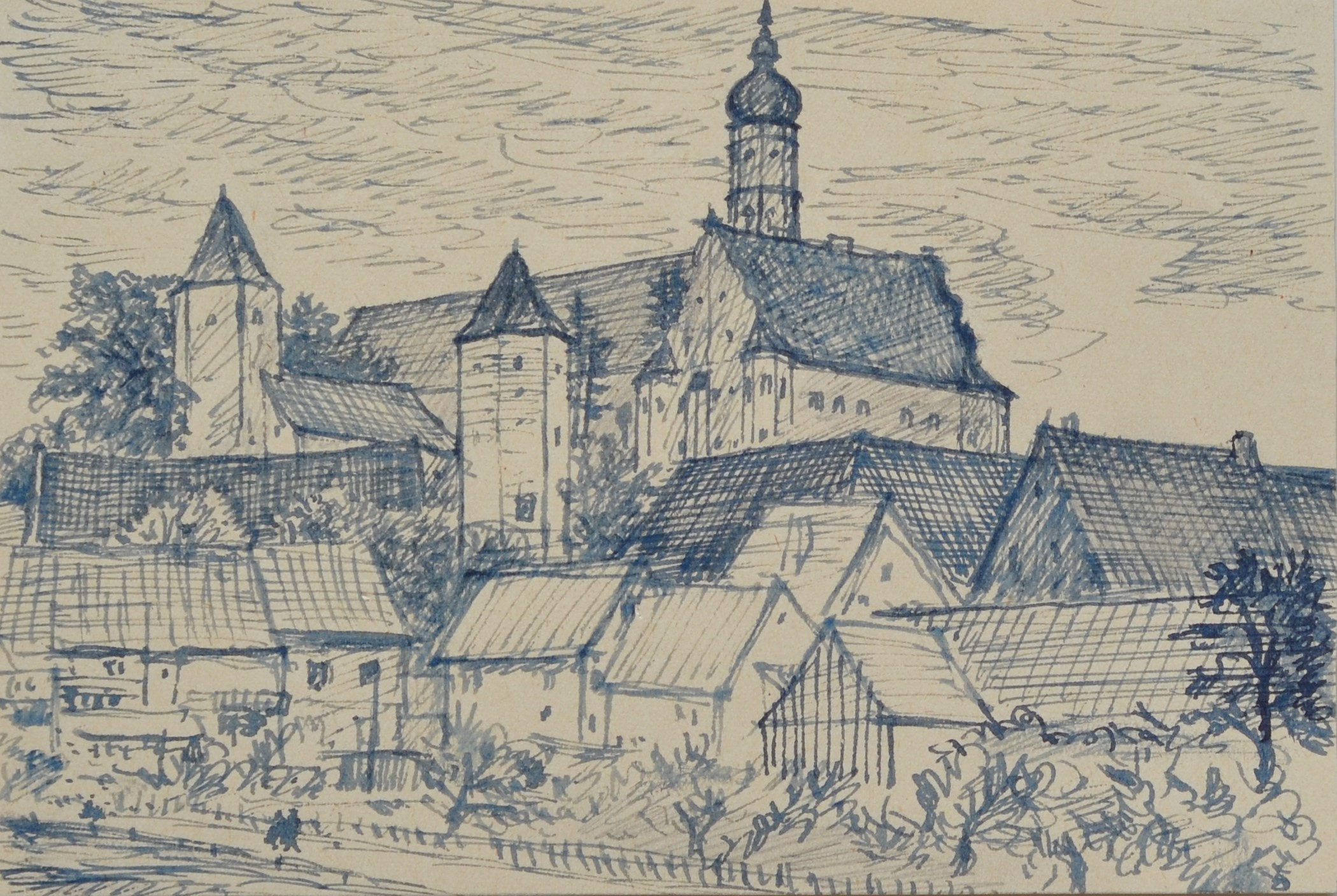 Bissingen by Donauwörth, 1945, drawing by architect Walter Kittel